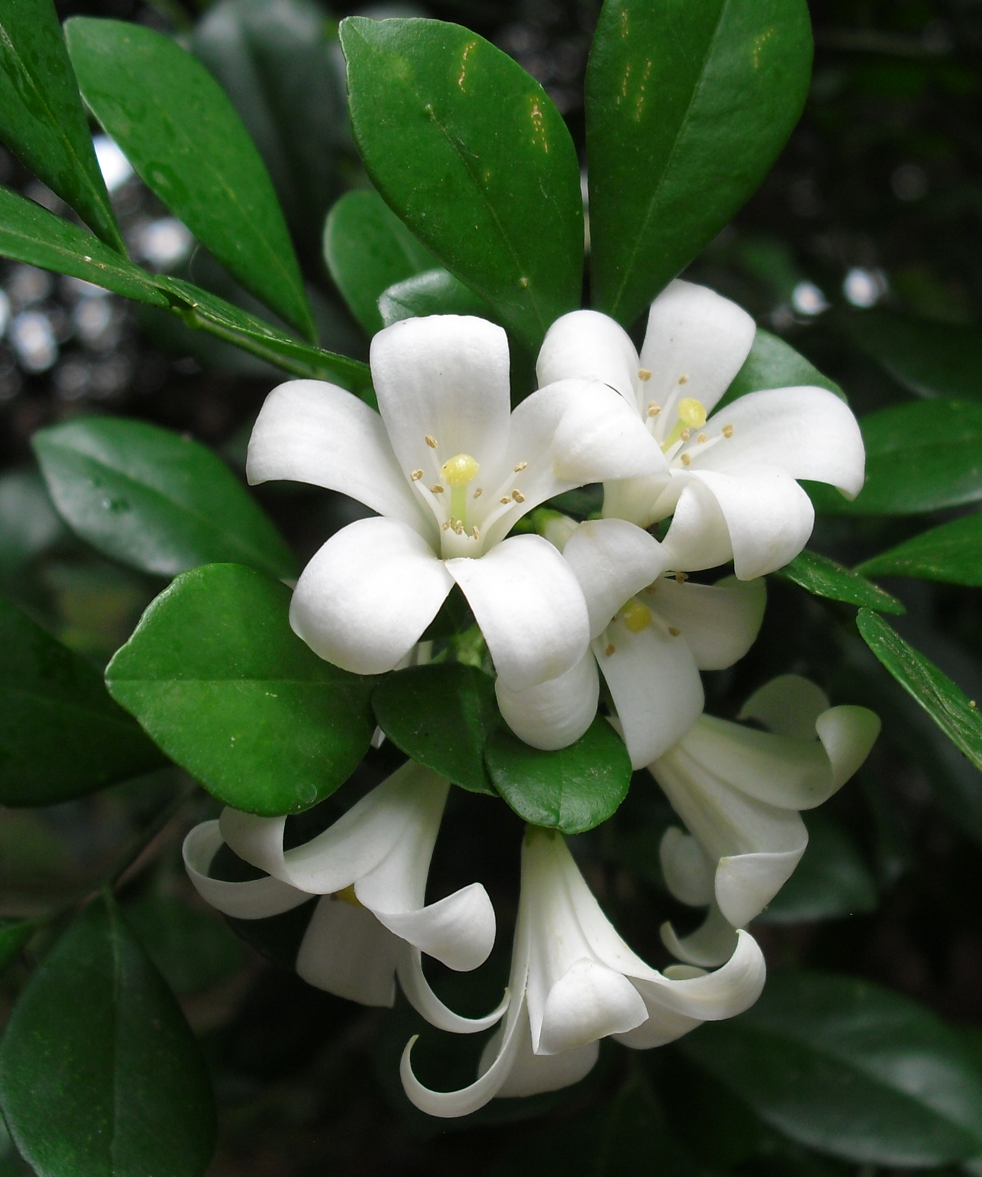 Orange jasmine blossom